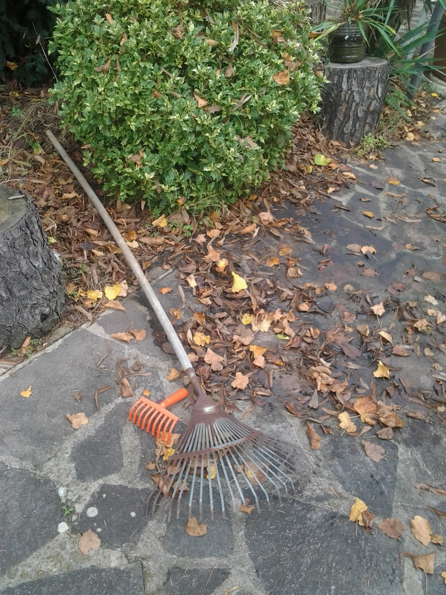 Left a small plastic rake to seize olives; right a more usual rake to gather leaves etc.